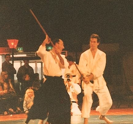 Photo of Alan Ruddock Sensei with uke David Halsall giving an Aikido demonstration in Isle of man in 1985